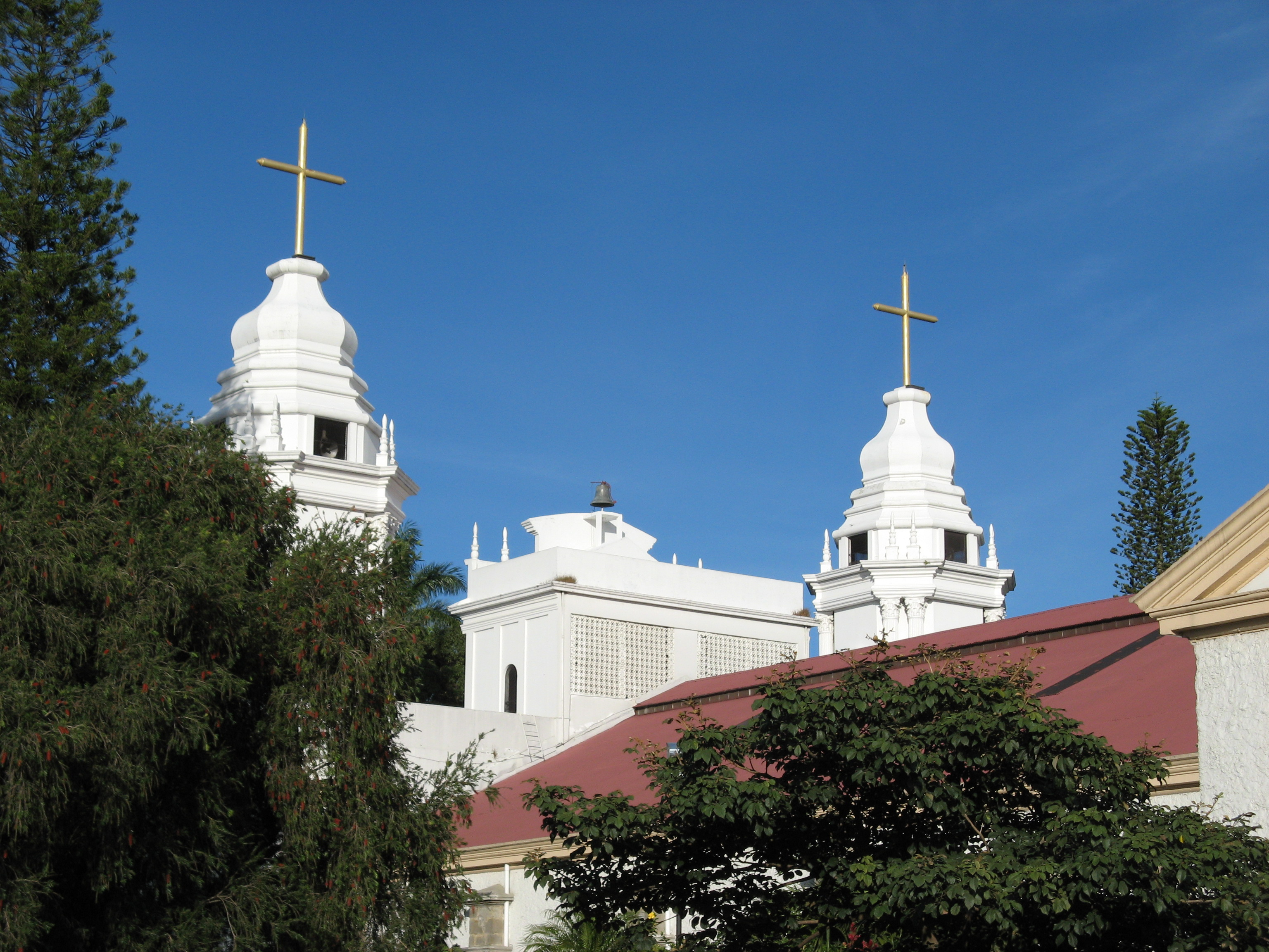 Church of Alajuela, Costa Rica